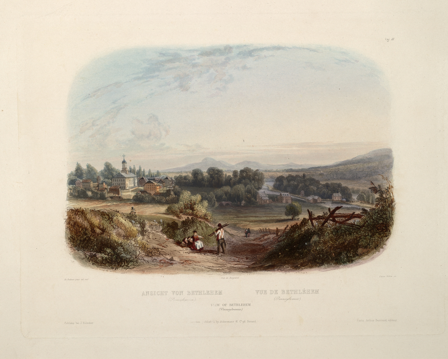 Aquatint by Karl Bodmer (1809 - 1893)